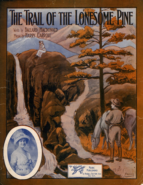 Sheet music cover.